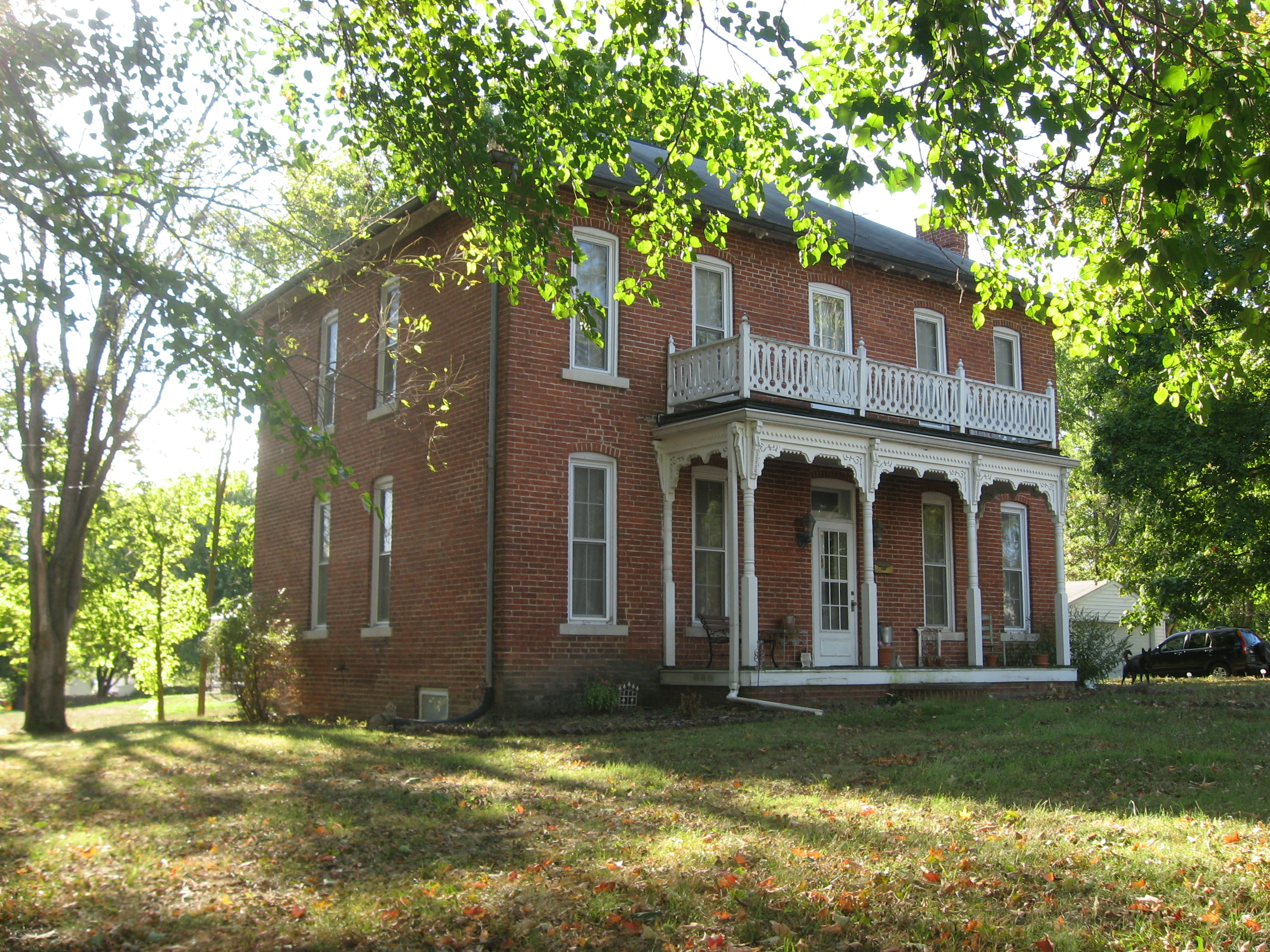 Front and southern side of the Herriott House, located at 696 N. Main Street in Franklin, Indiana, United States. Built in 1860, it is listed on the National Register of Historic Places.